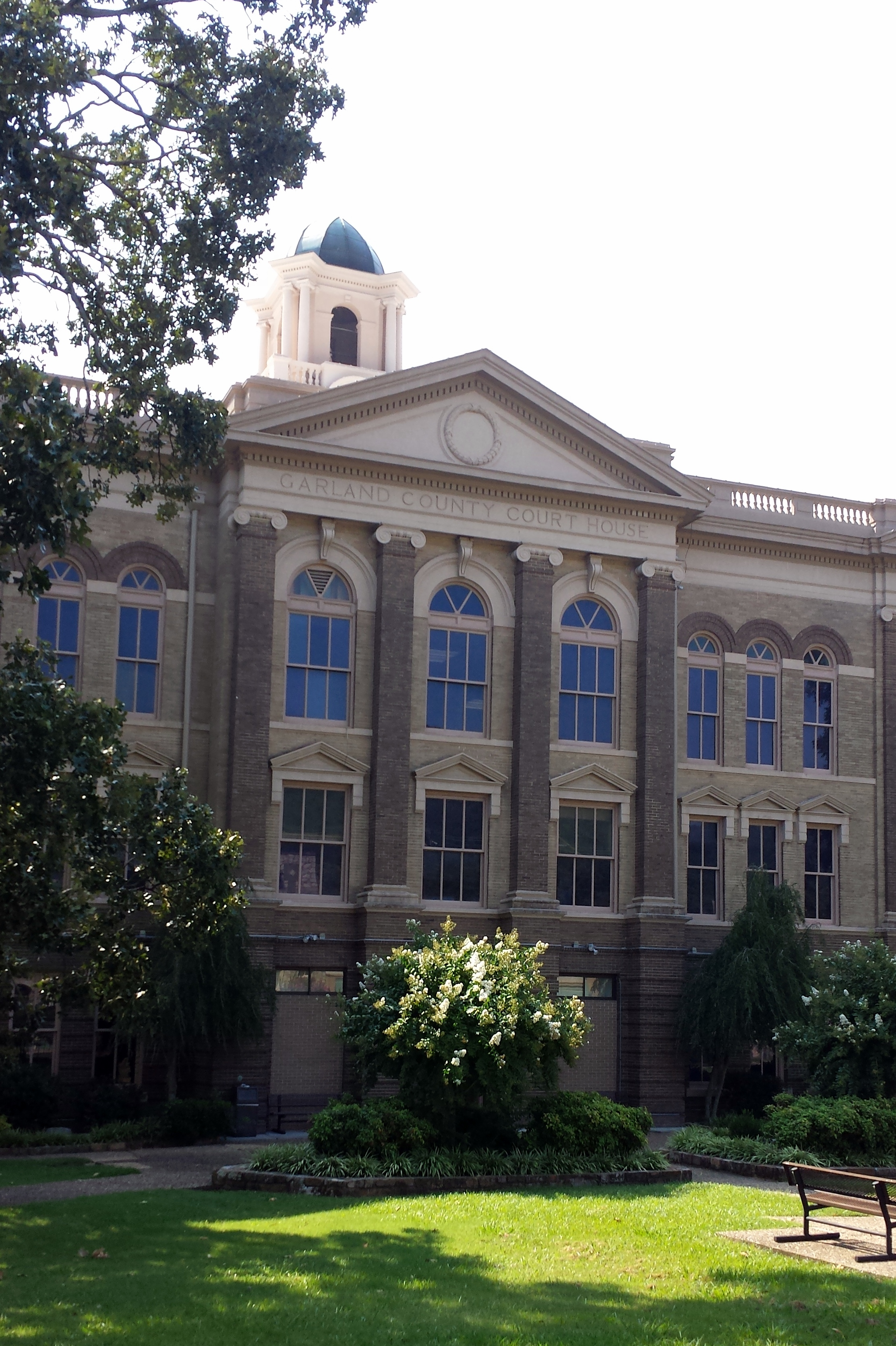 Facade of Garland County Courthouse in Hot Springs, AR